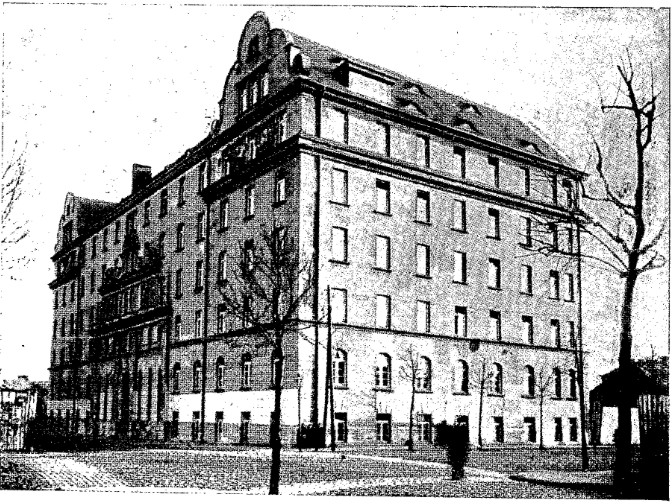 Jewish Dormitory in Warsaw, by Henryk Stifelman